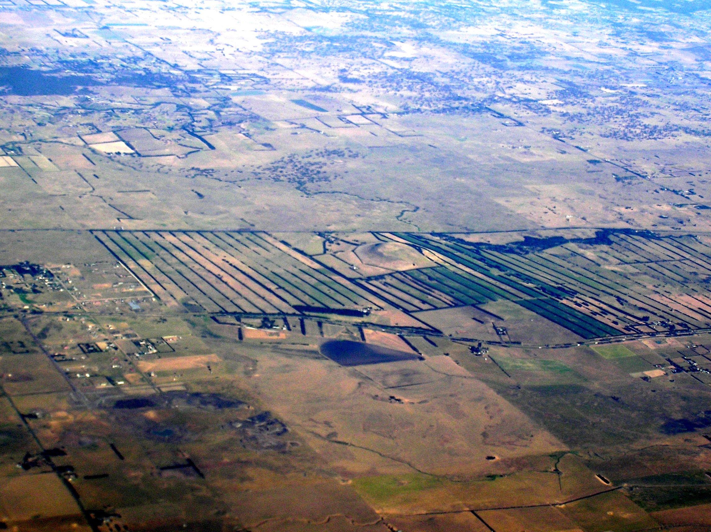 Aerial view of the area between Beveridge and Kalkello with a striking hedge pattern. Merri Creek snakes from left to right. And Hayes Hill, a volcano, is in the background. Bald Hill (Kalkallo), another volcano, breaks up the geometric pattern of hedges and is comprised of lava and scoria.